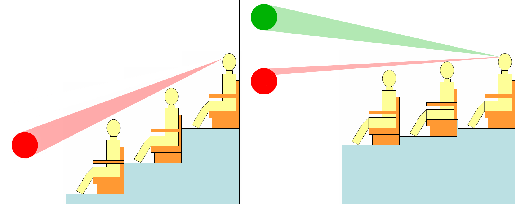 A demonstration of stadium seating's eyeline benefits over standard seating.